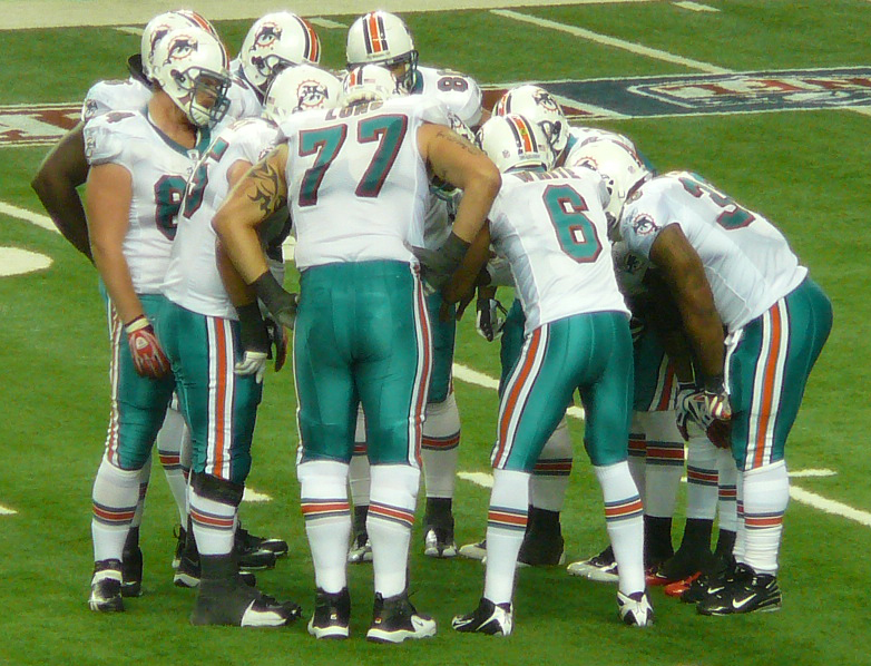 If used somewhere other than Wikipedia, Nelson, by name.